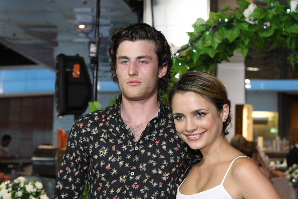 James Frecheville and Jessica Tovey at A Few Best Men film premiere In Sydney, Australia, 2012